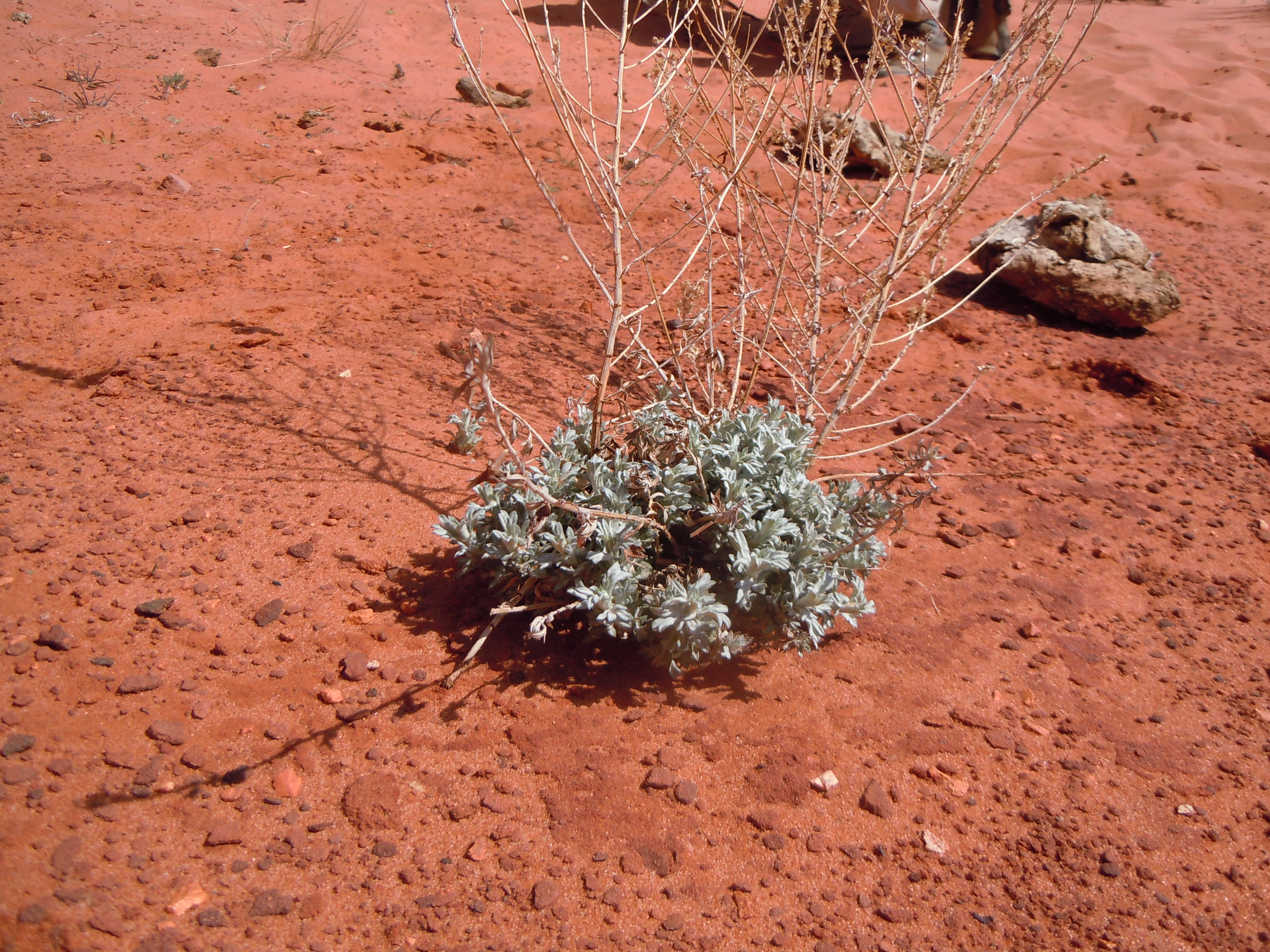 Where sand superficially covers rocky substrate, Artemisia bigelovii can assume a bunched growth form with taller and more diffuse inflorescences.